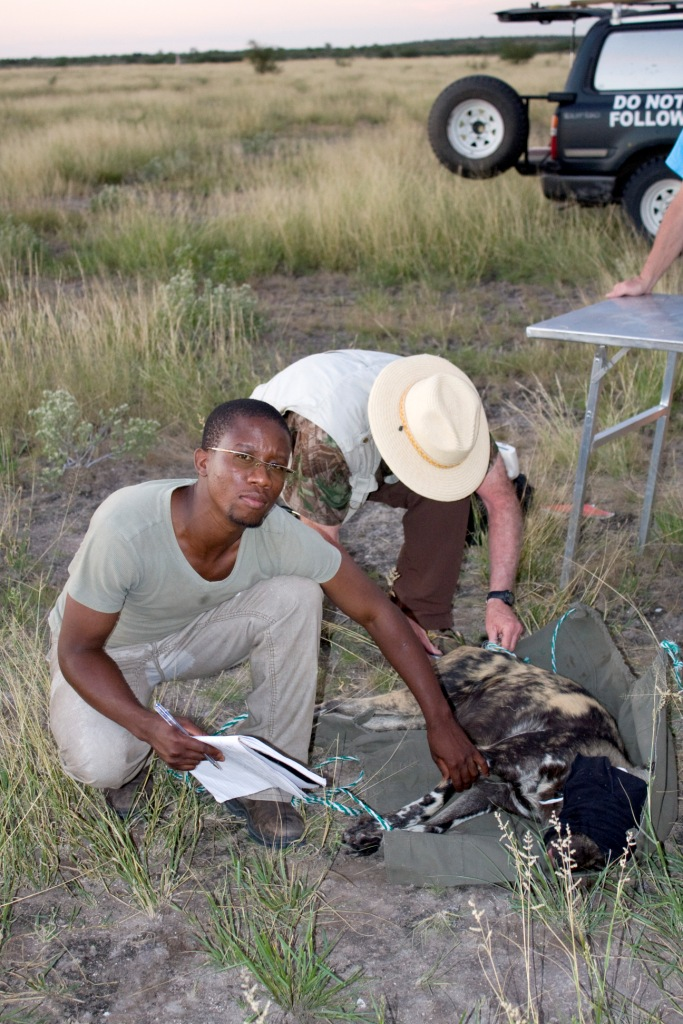 File:Lars Gorschlüter mit afrikanischen Kindern.jpg